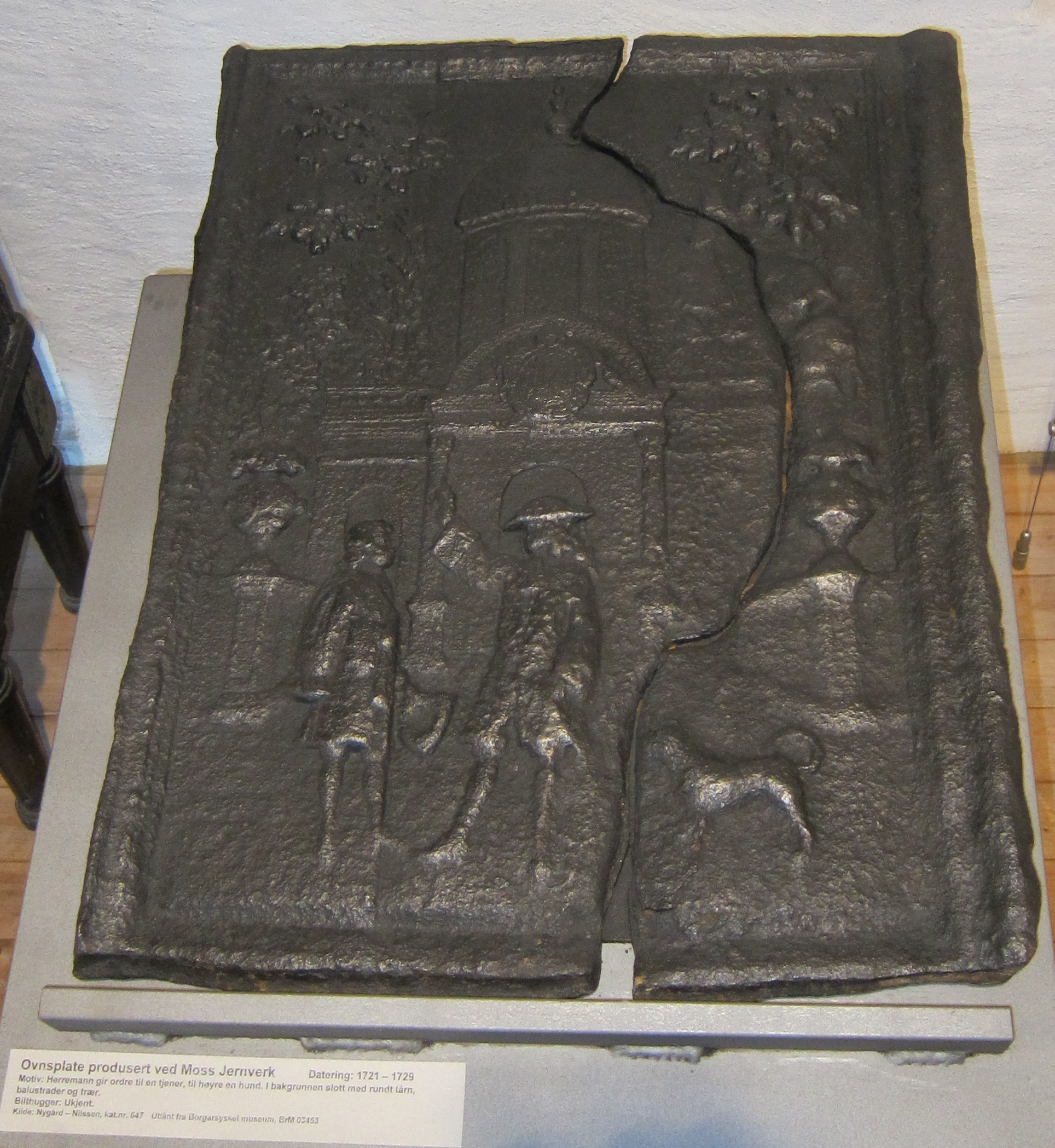 Stove plate in iron from Moss Jernverk, dated 1721-1729, artist unknown, on display at Moss By- og Industrimuseum (Moss City Museum)